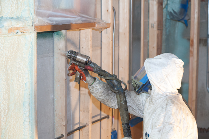 Closed cell spray foam being sprayed into a stud cavity.